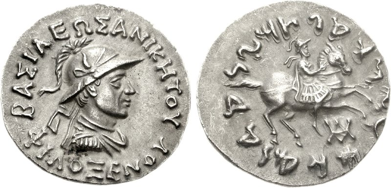 Coin of the Indo-Graeco king Philoxenos